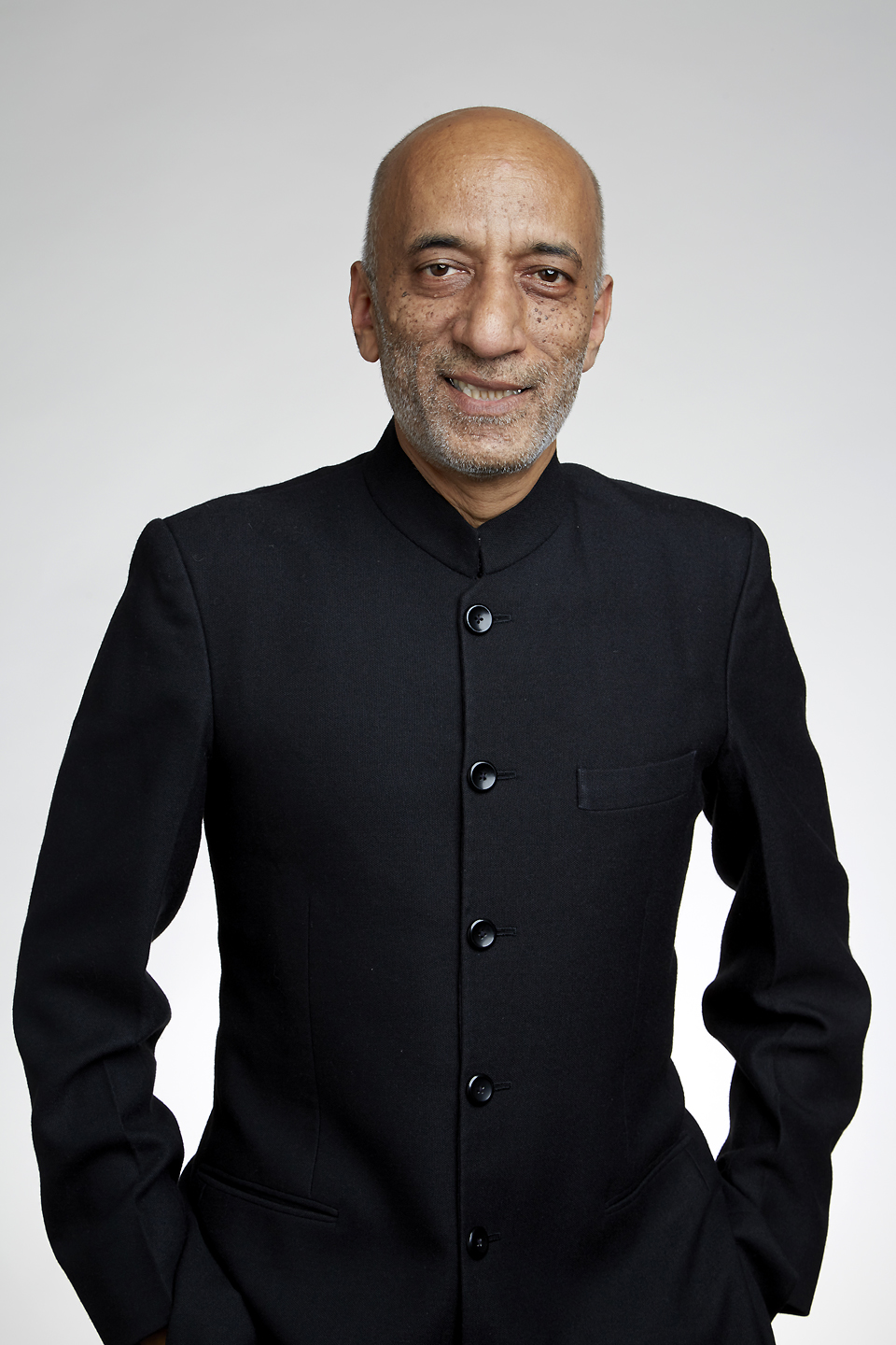 Sriram Rajagopal Ramaswamy (born 10 November 1957) FRS is a Professor at the Indian Institute of Science, Bangalore and was on leave (2012-16) as Director of the Tata Institute of Fundamental Research (TIFR) Centre for Interdisciplinary Sciences in Hyderabad. Attribution: The Royal Society